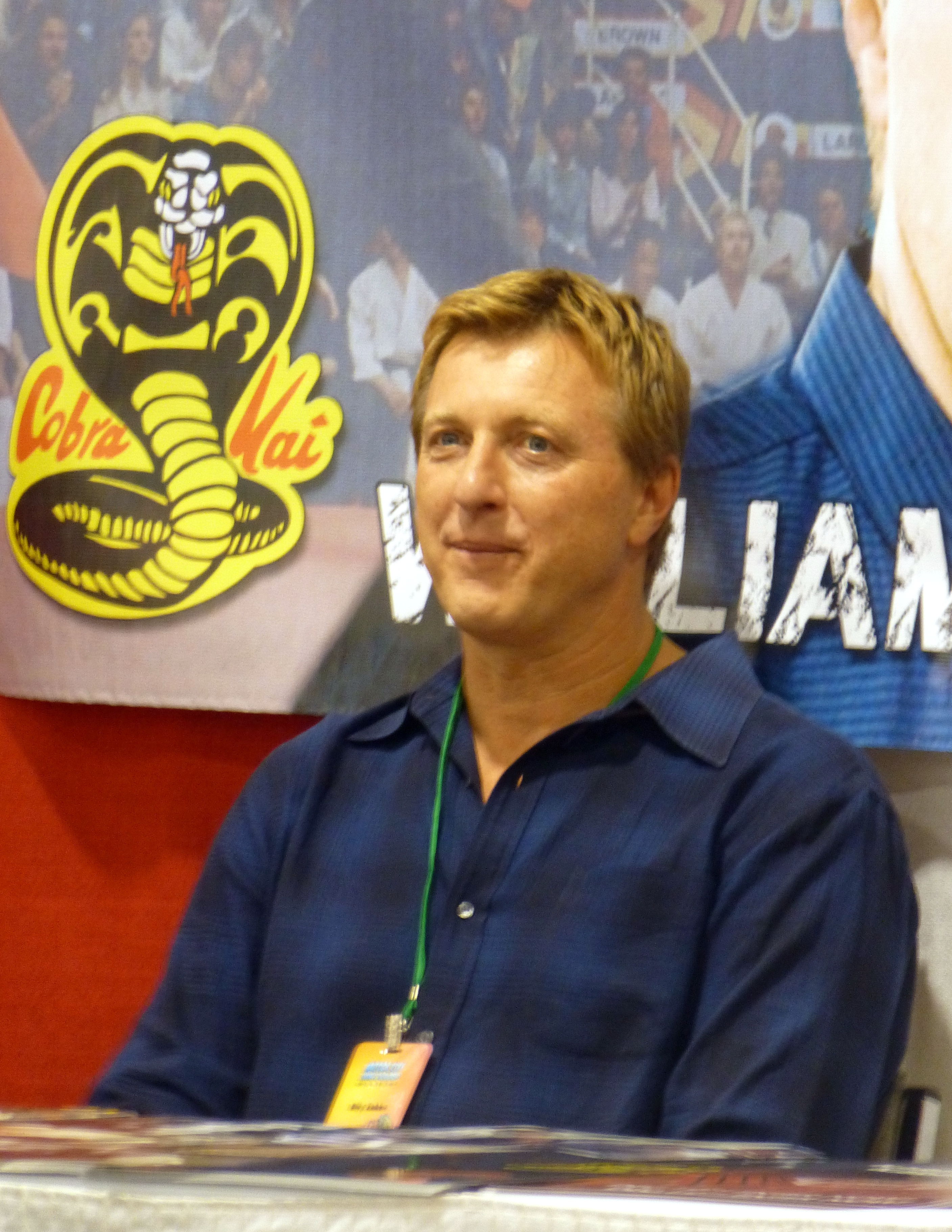 William Zabka 01 Motor City Comic Con 2015